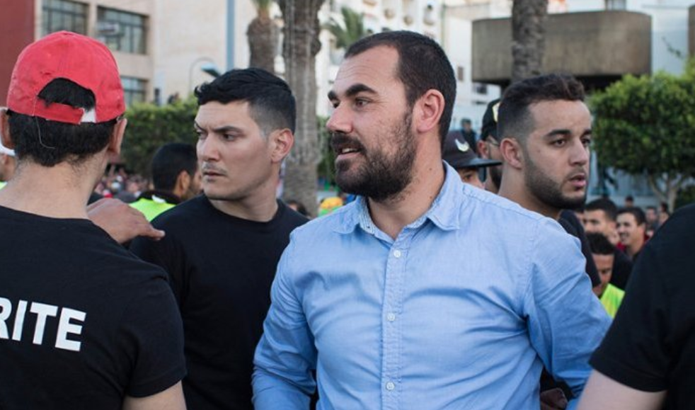 A picture of Berbers in a Moroccan city.